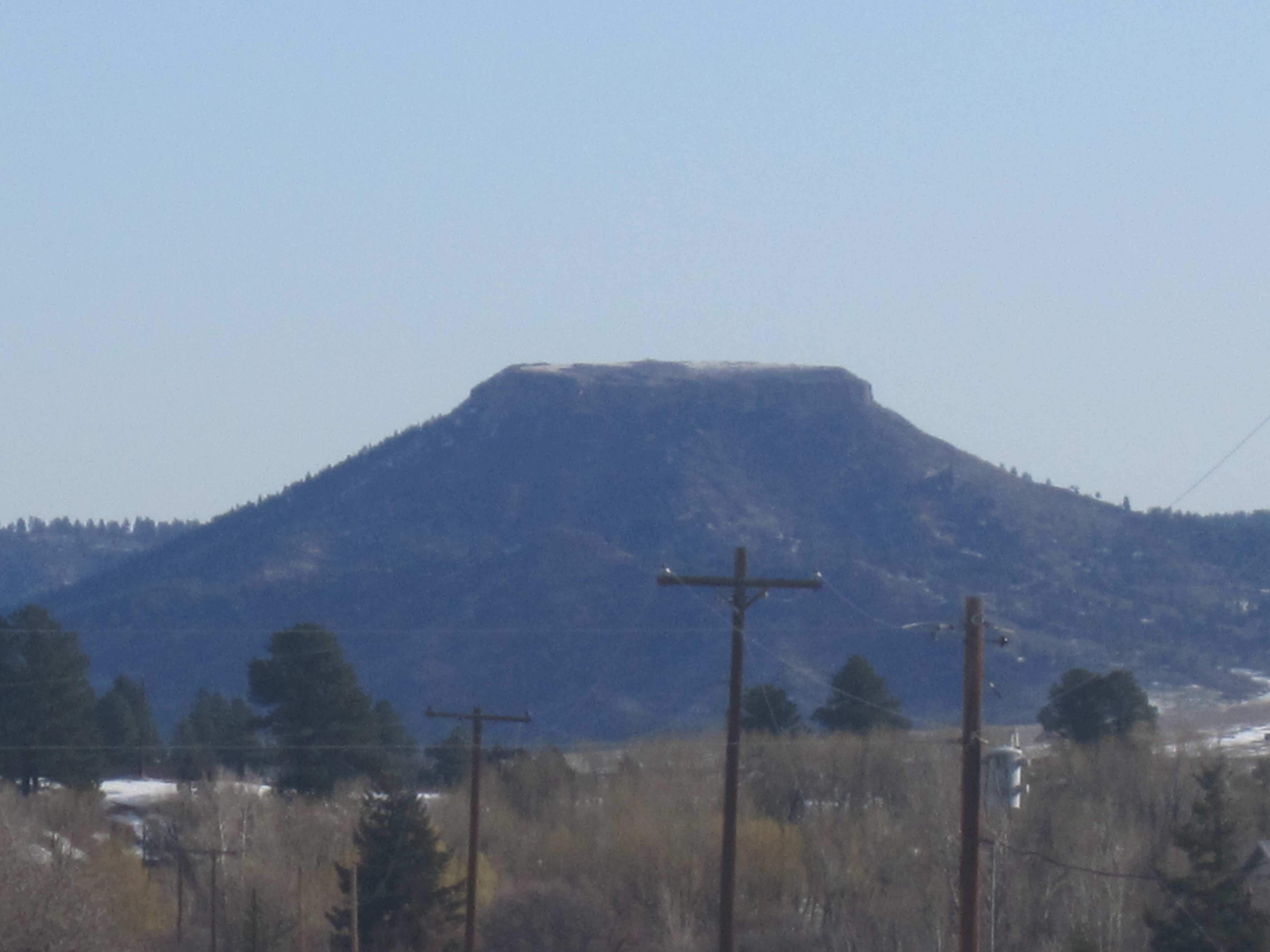 I took photo with Canon camera of this mesa in Douglas County, CO.